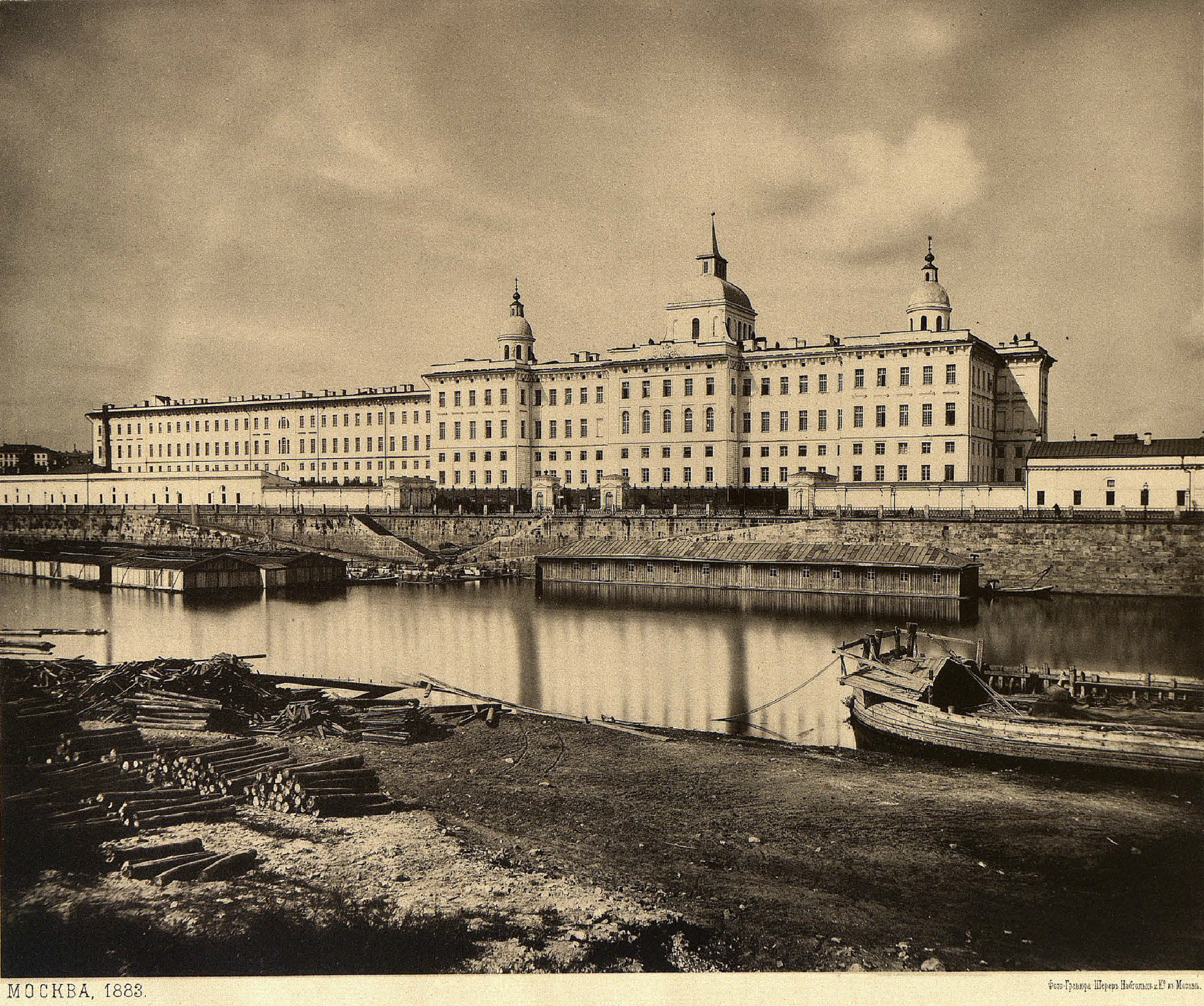 Plate 60: The Orphanage, Moscow.